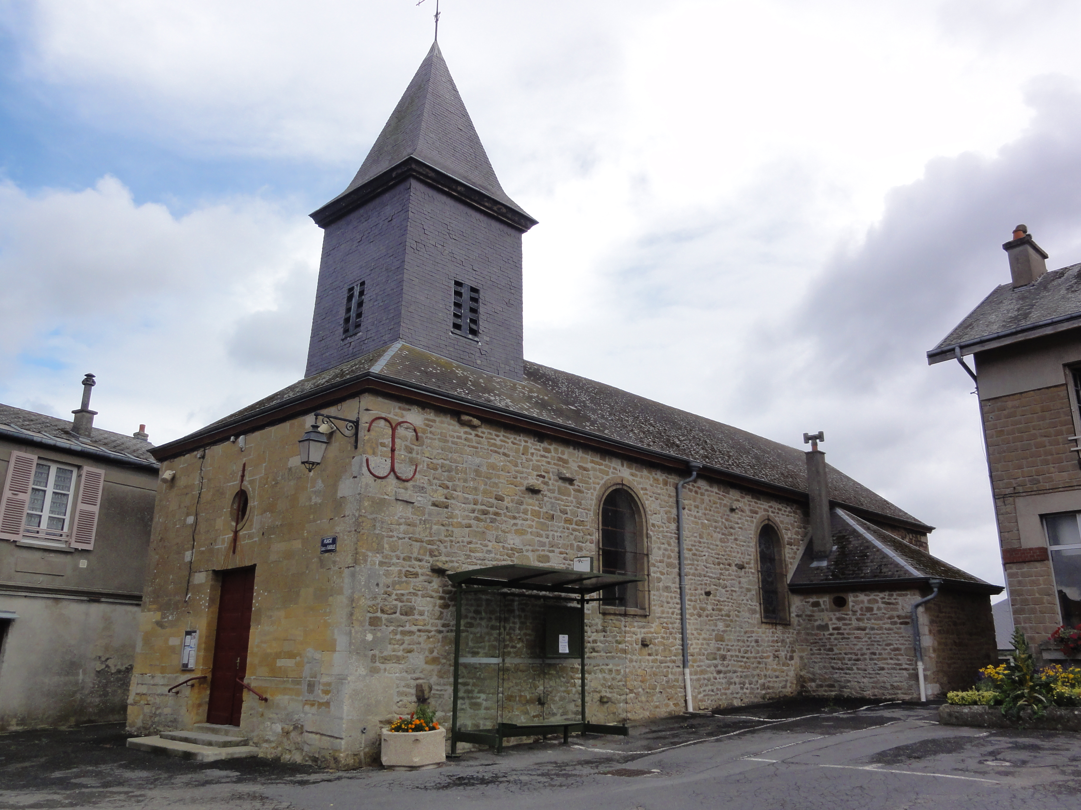 Prix-lès-Mézières (Ardennes) église